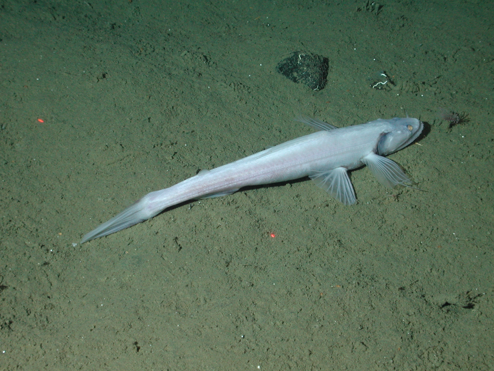 Bathysaur or highfin lizardfish (Bathysaurus mollis) at the Davidson Seamount (2375 meters depth). This is one of three Pacific coast species. This fish is often found very still on the bottom; lying-in-wait as an ambush predator on unsuspecting prey items.